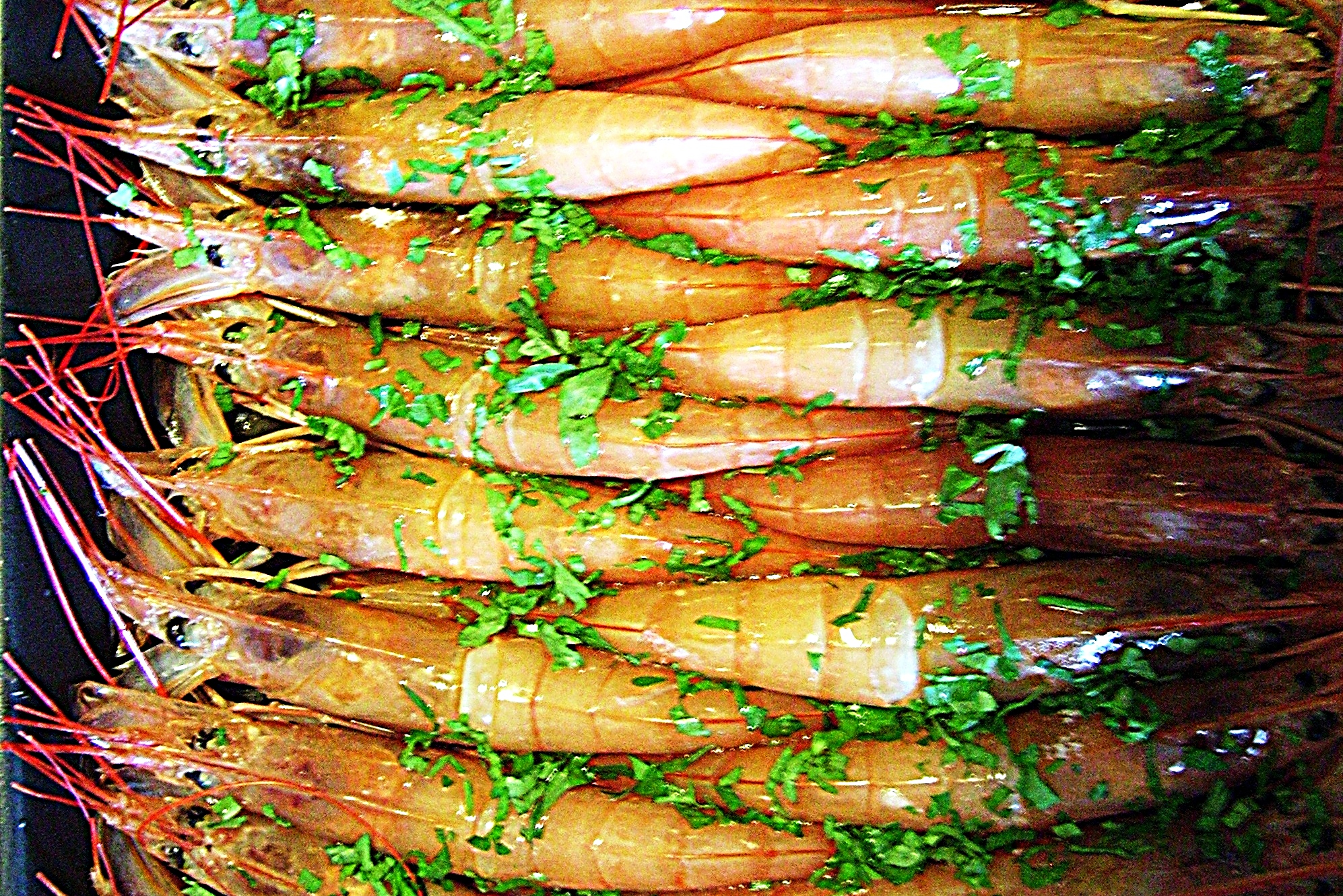 Olbia (Sardinia - Italy) King prawns cooked with Vernaccia